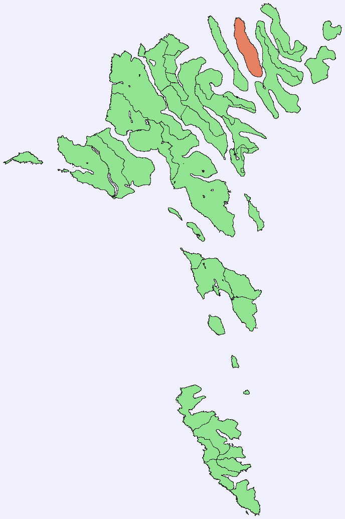 Position of Kunoy, Faroe Islands